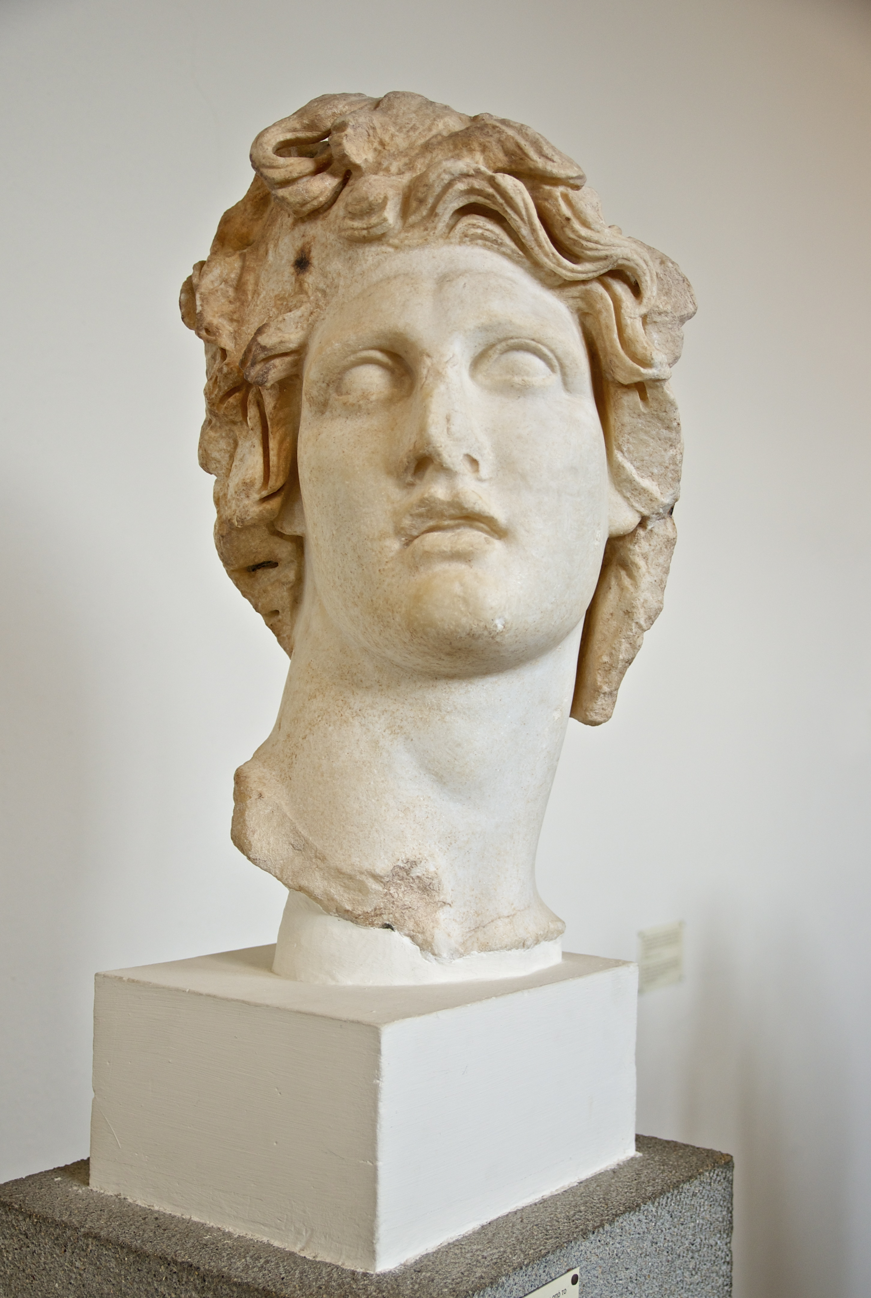 The god of island of Rhodes. Holes on the periphery of the cranium are for inserting the metal rays of his crown. The characteristic likeness to portraits of Alexander the Great alludes to Lysippan models.